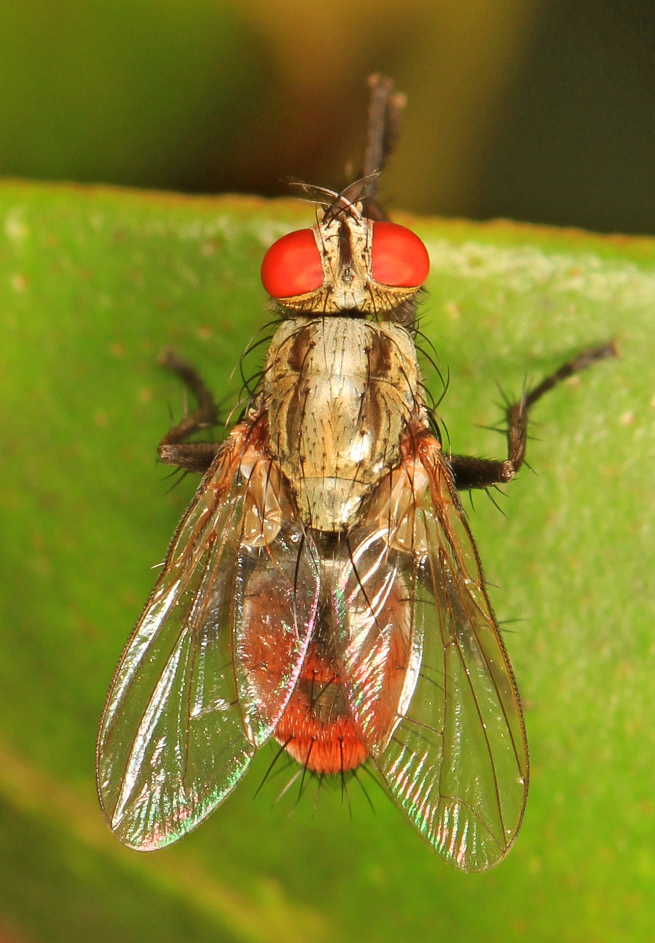 Flesh fly - Lepidodexia species, Long Pine Key, Everglades National Park, Homestead, Florida.